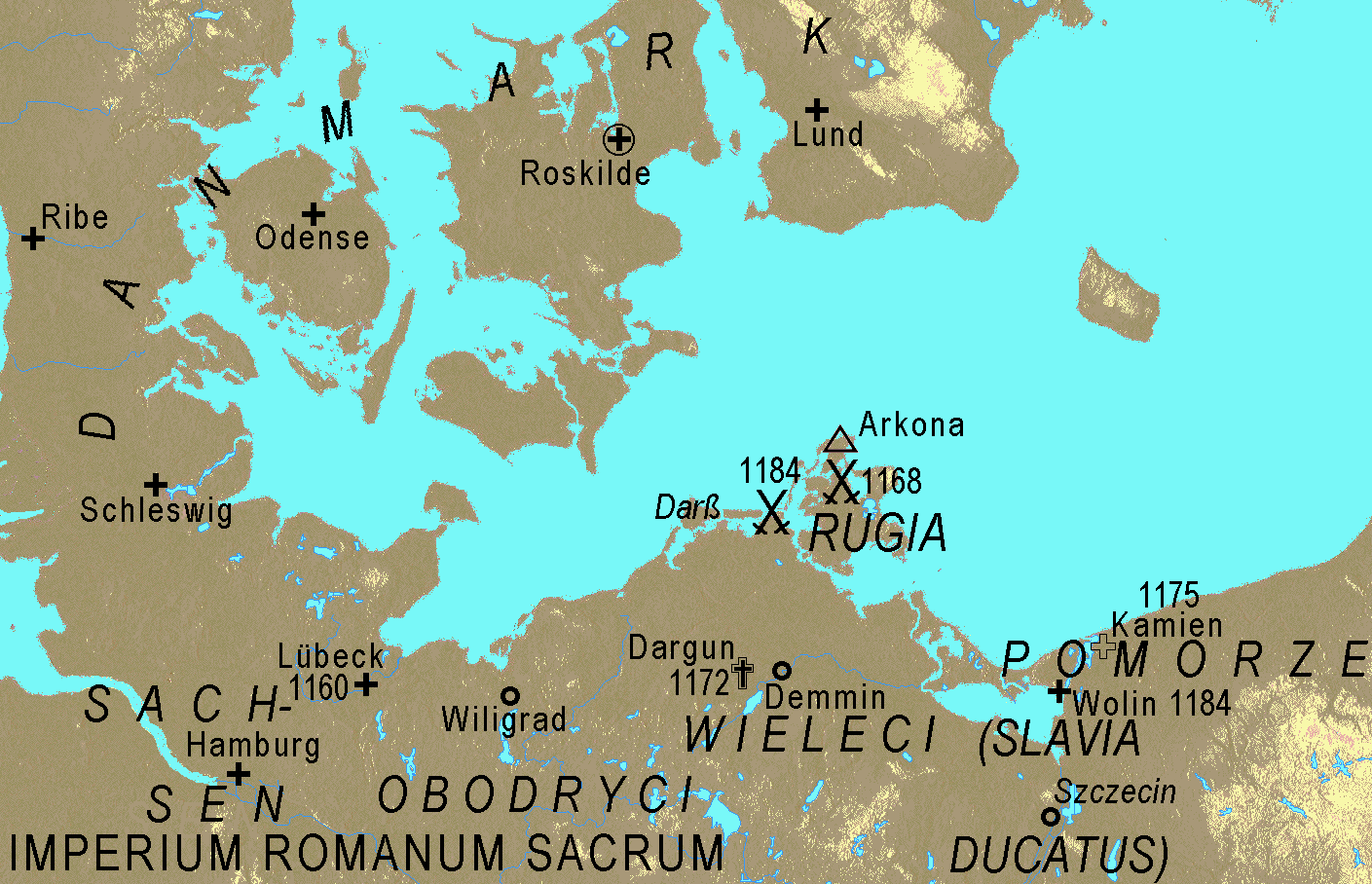 Western Baltic Sea in late 12th century, with the siege of ARKONA in 1168 and the BATTLE IN THE DARSS BACKWATERS in 1184.